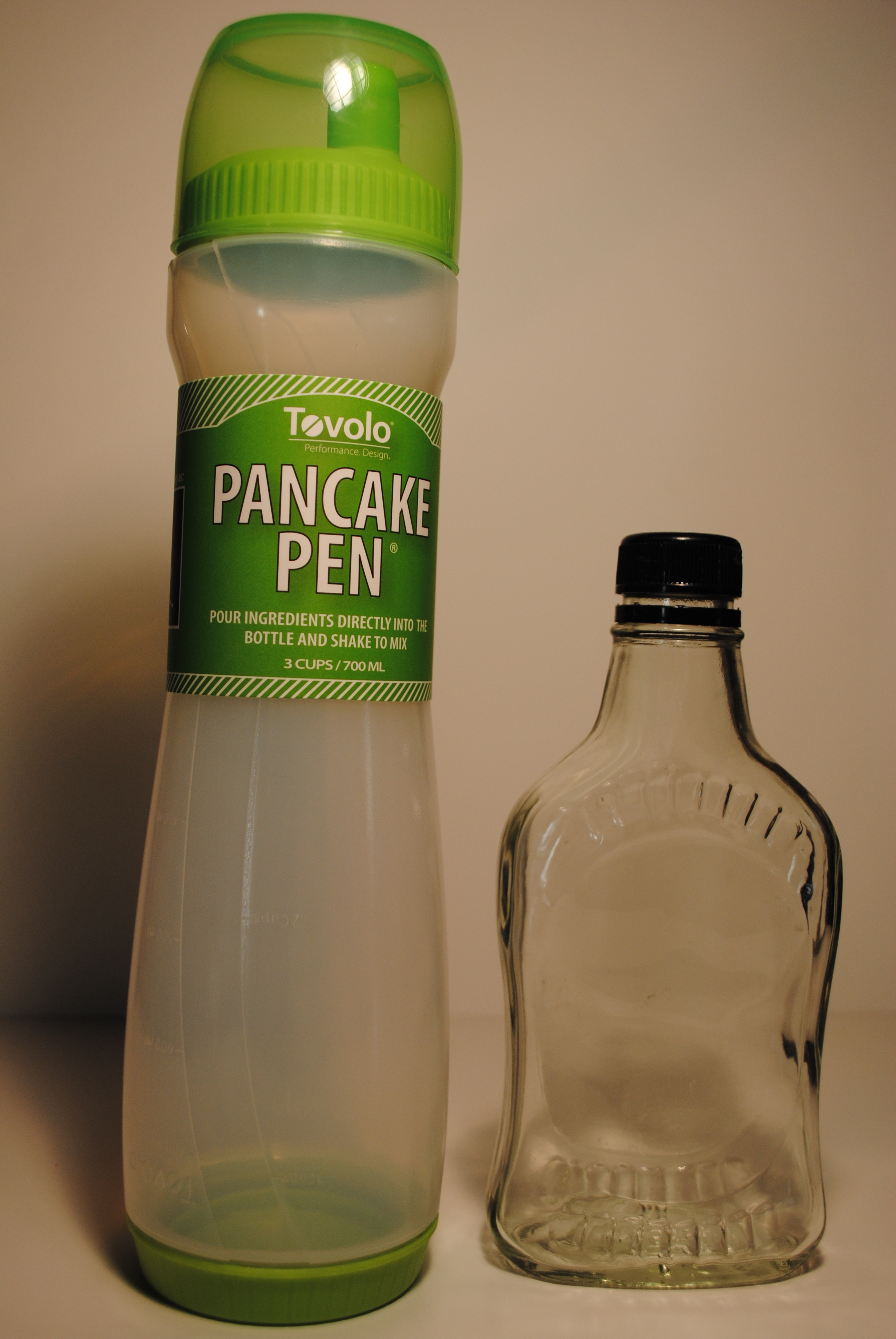 Example of a pancake pen next to a maple syrup bottle.